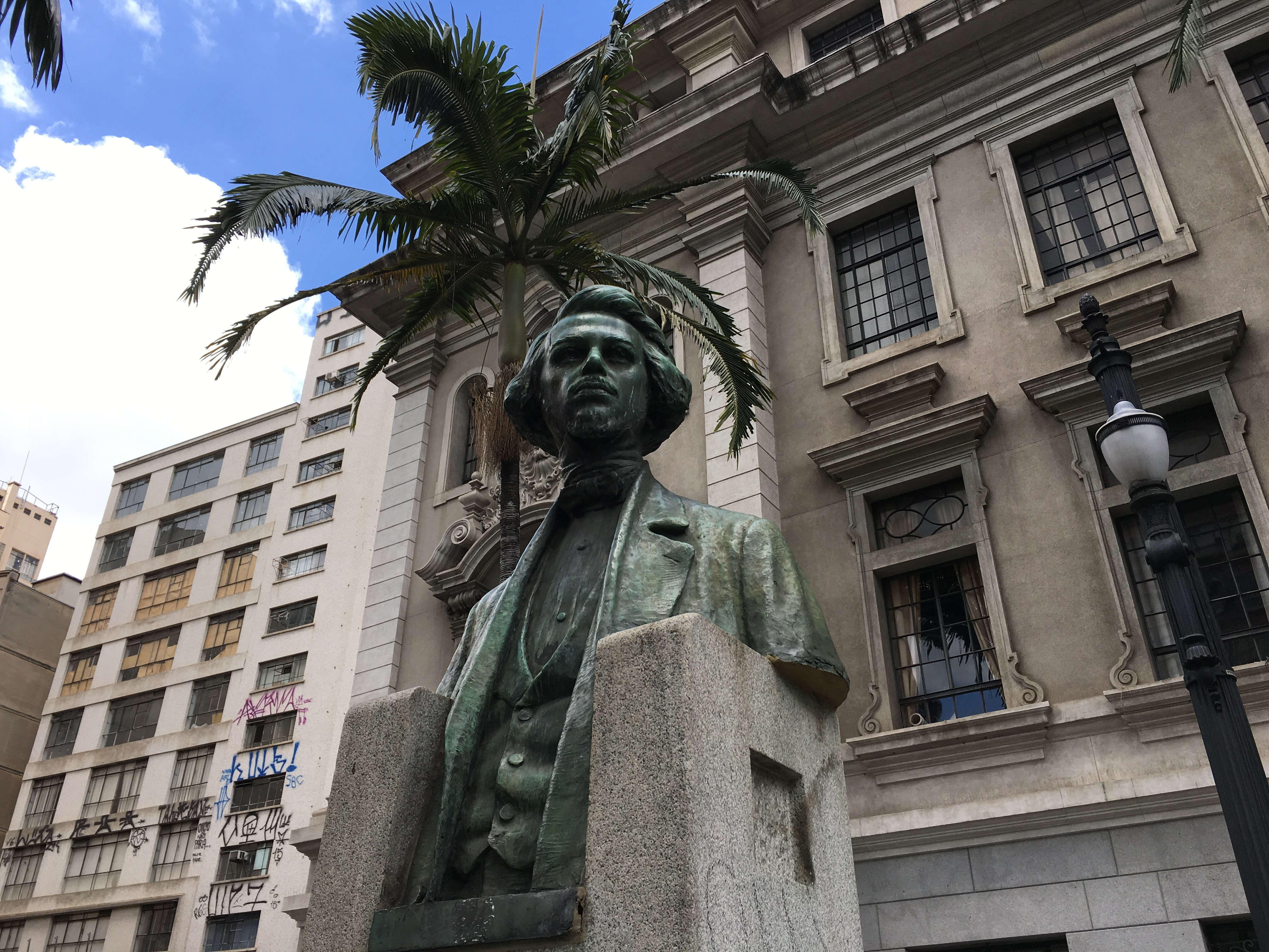 Statue of Manuel Antônio Álvares de Azevedo, writer of the second romantic generation, in Brazil of XIX century. Located in Largo São Francisco, São Paulo - SP.